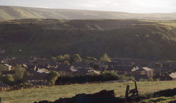 "hills above Haslingden"